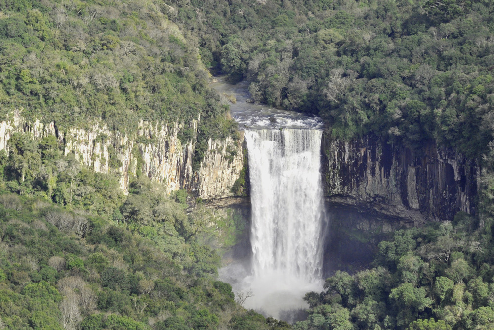 CAMINHOS DE PEDRA - Bento Gonçalves, Jul/11 (Foto: Rafaela Ely)